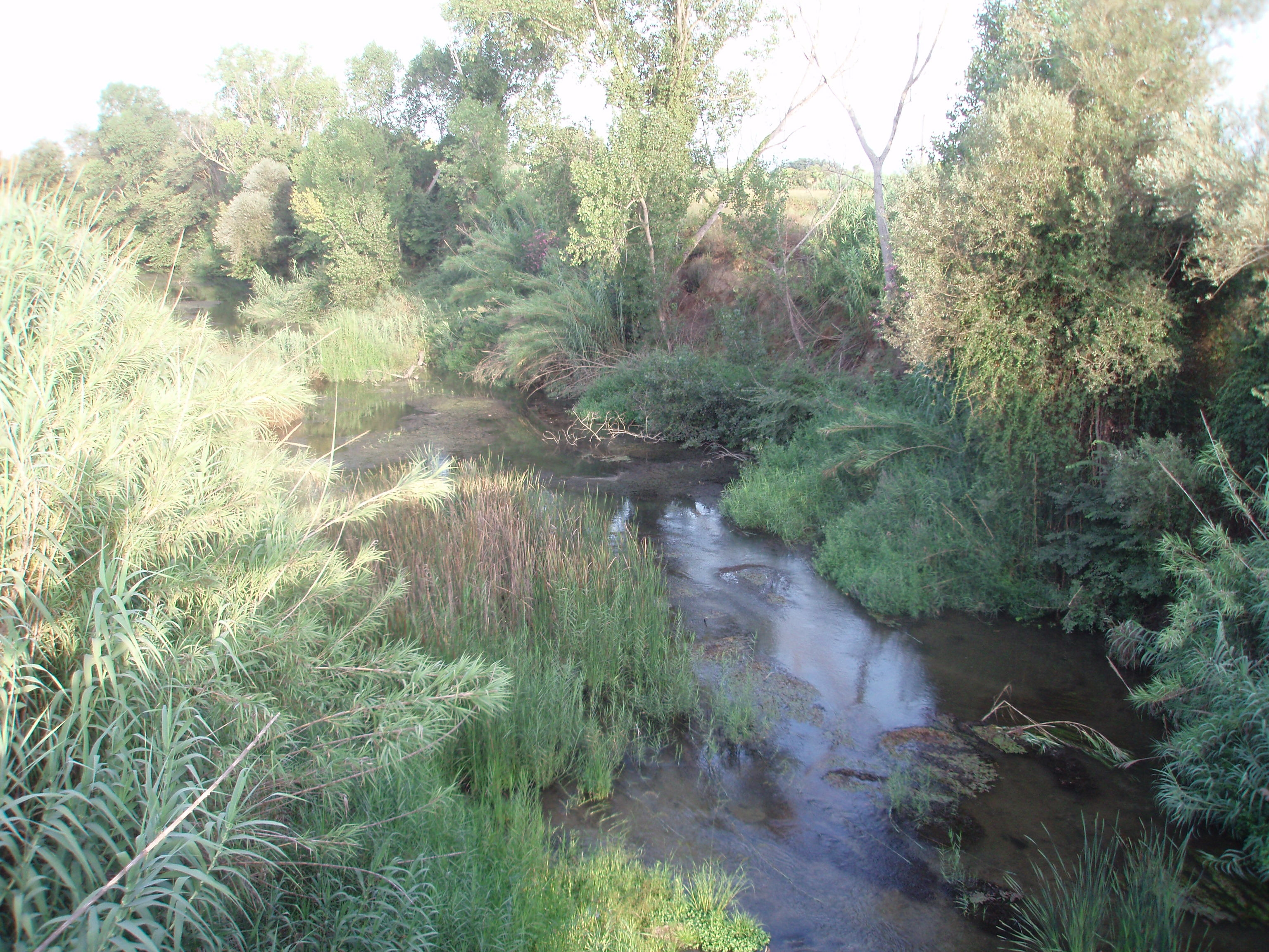 Pinios river at National Road 9 bridge, near Andravida and Gastouni, Peloponnes, Greece. View towards the river course east of the road bridge